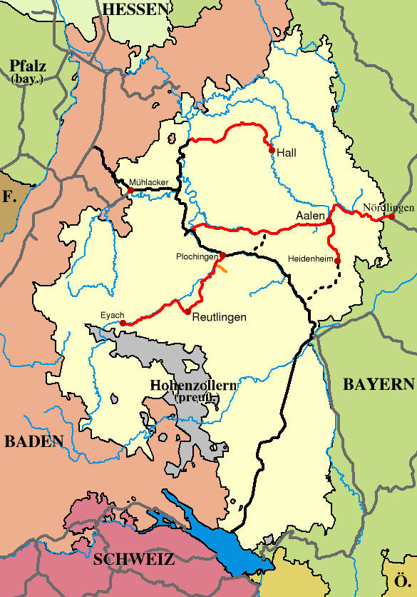 Railroad network of Württemberg as of 1864. Black: railroads built until 1854; red/orange: state/private railroads built between 1855-1864; grey: railroads outside of Württemberg; dotted: alternatives considered for the railroad to Nördlingen (Lonsee-Heidenheim and Lorch-Uhingen).